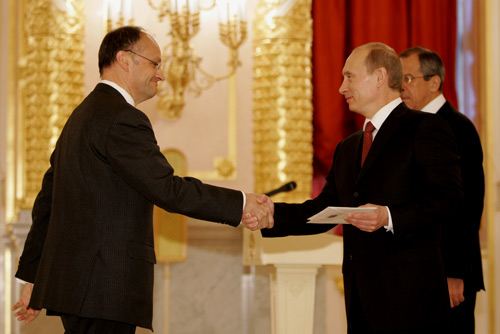 THE KREMLIN, MOSCOW. The President of Russia received the letter of credential of the Ambassador of the Grand Duchy of Luxembourg, Gaston Stronck.